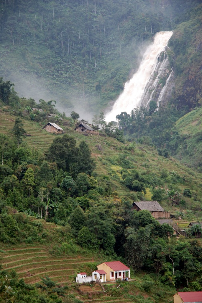 Bạc waterfall in Sapa, Vietnam